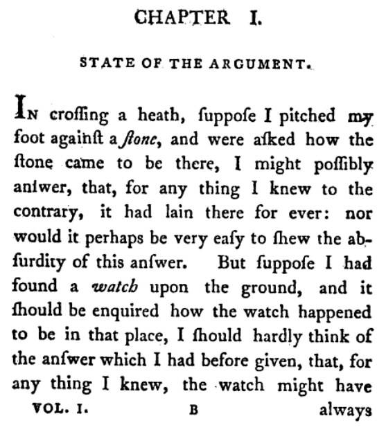 The first page of William Paley's 1802 book Natural Theology, introducing his version of the Watchmaker Analogy.